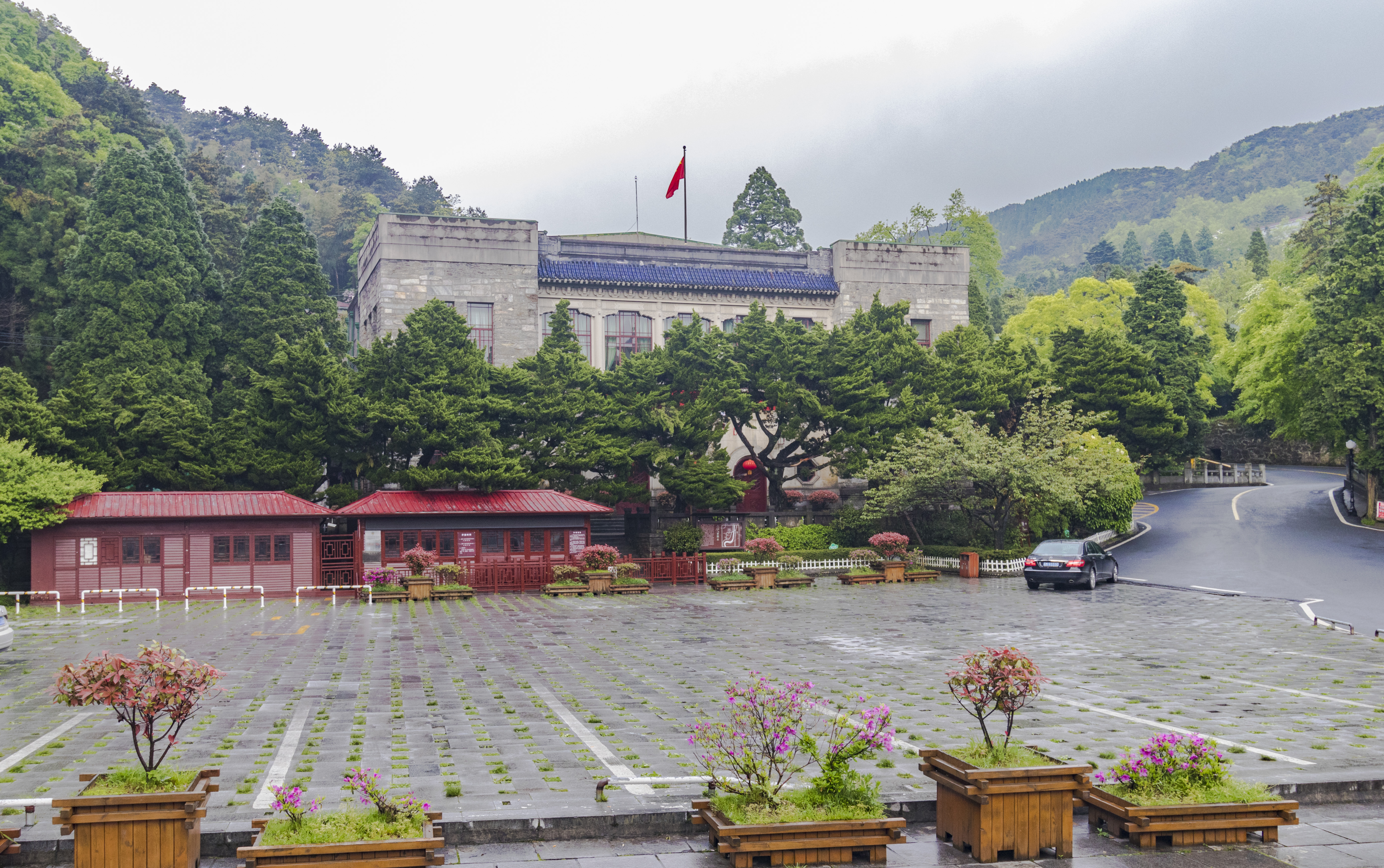 Site of Lushan Conference in Lushan City